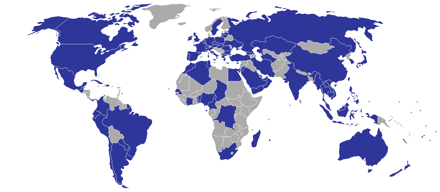 Accor global locations